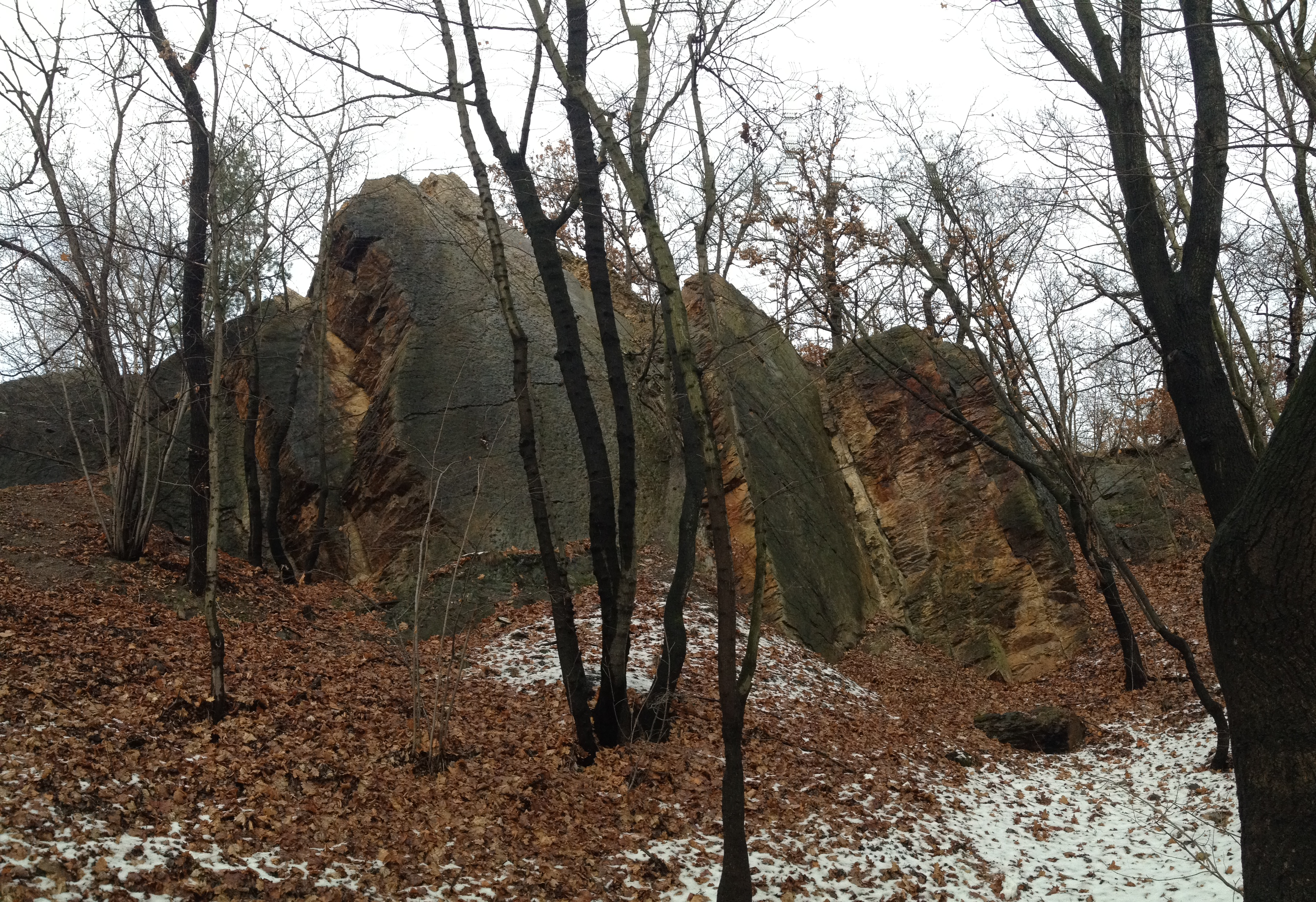 Natural monument Skalka in Prague, Czech Republic